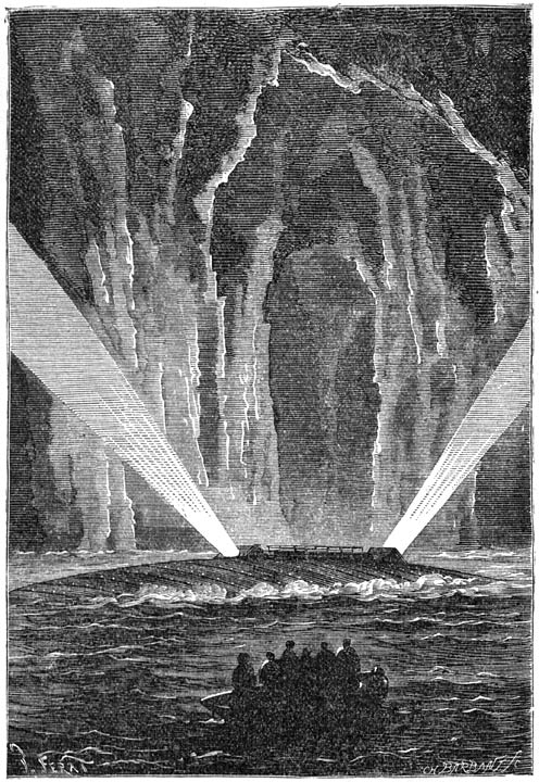 An illustration from Jules Verne's novel "The Mysterious Island" (1873-74) drawn by Jules Férat.